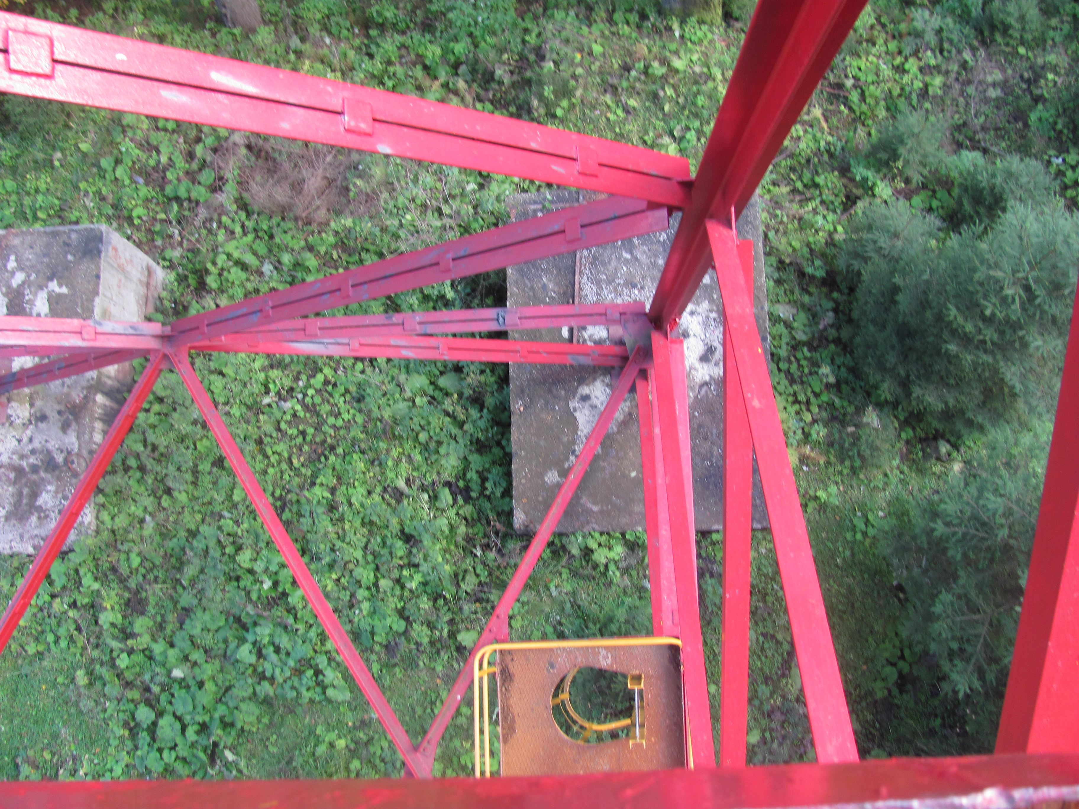 Sturctura metalică spațială cu fundațiile de beton și ridigizările elementelor principale de stabilitate